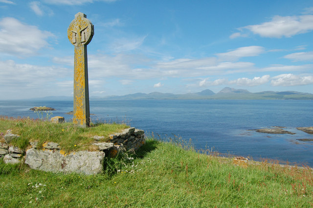 Eilean Mor, MacCormaig Isles View from Eilean Mor to Jura